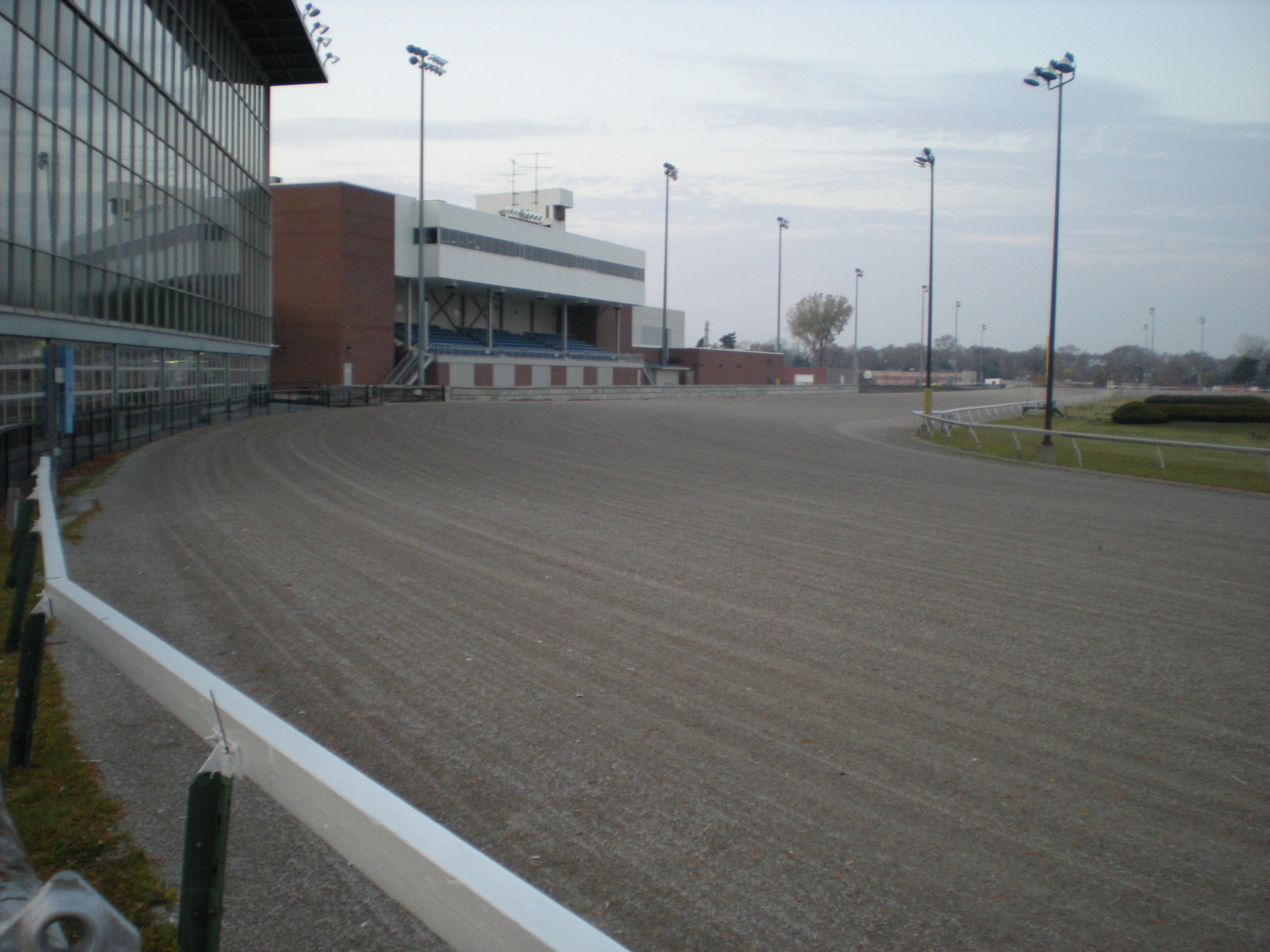 Pictur of Track in my City.